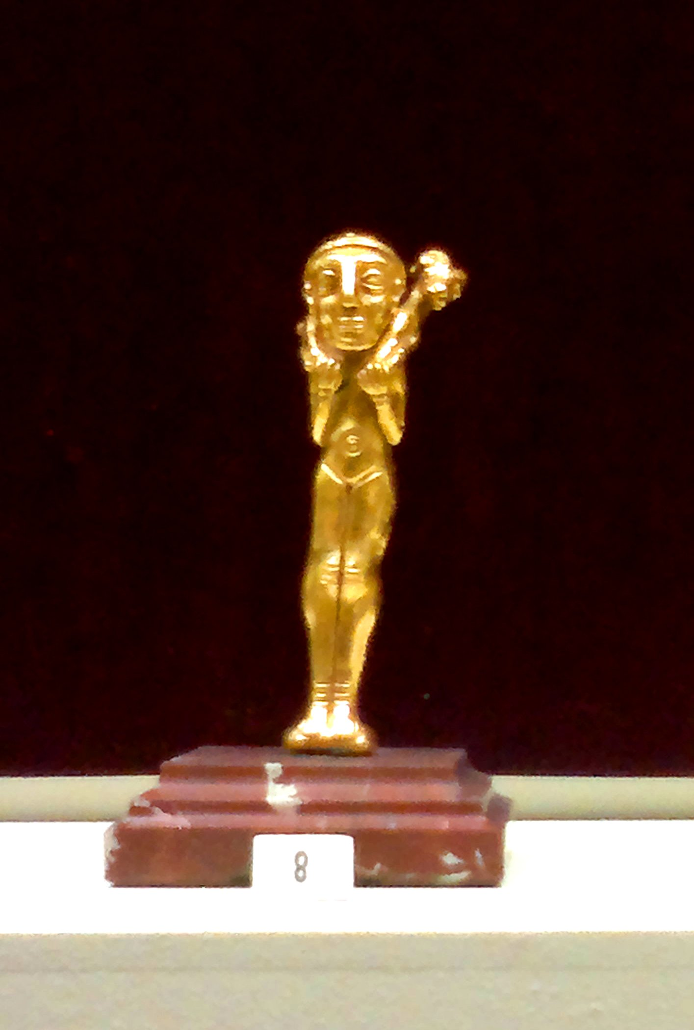 Golden statuette from Lankaran. I millennium BC. Museum of History of Azerbaijan, Baku.